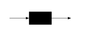 a simple black box diagram